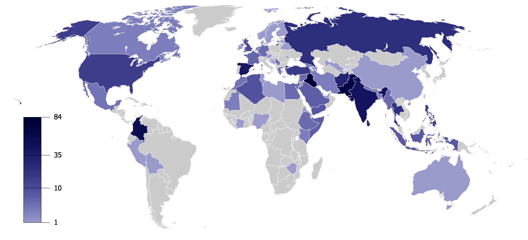 A 4-colored World map